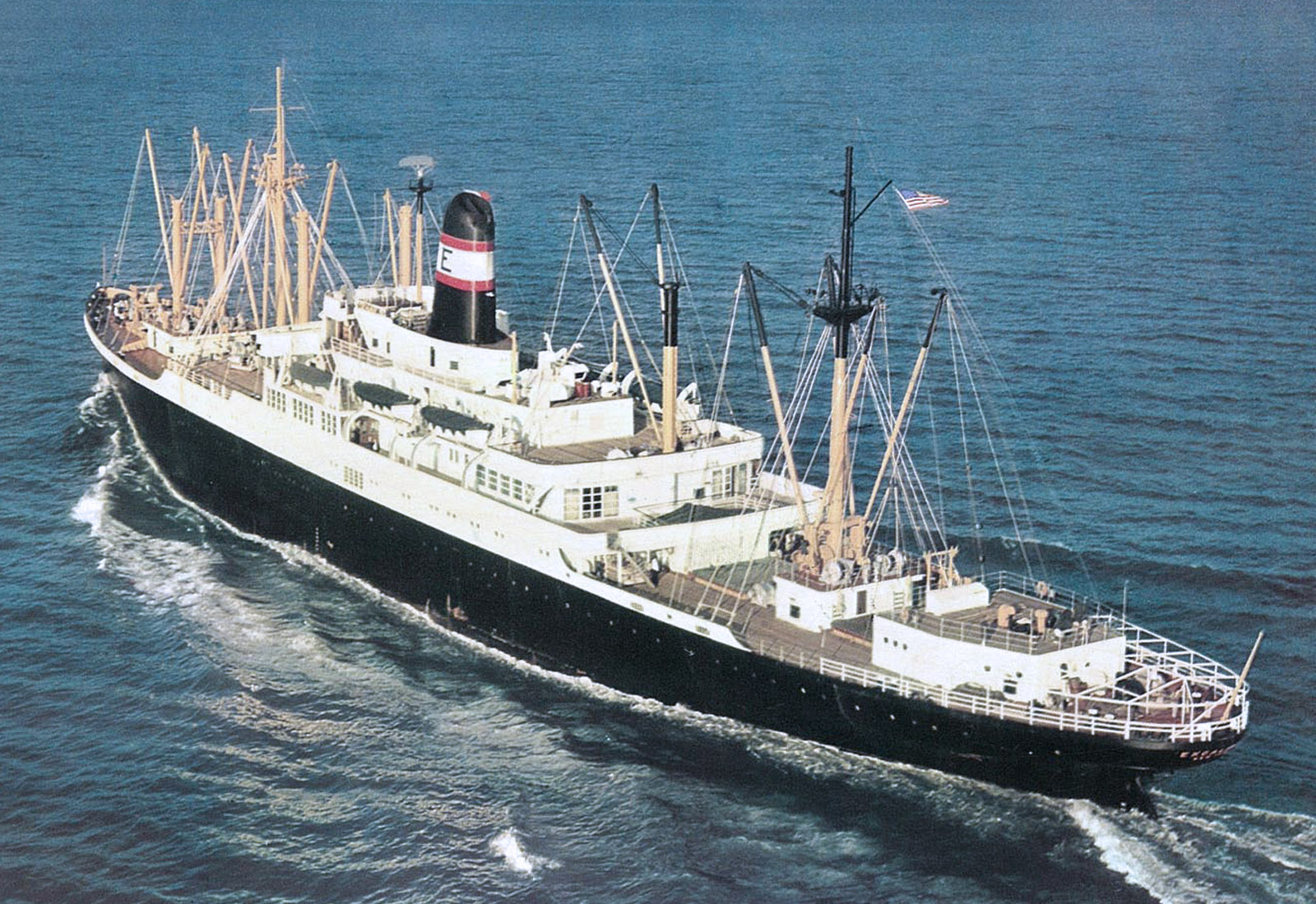 Cropped version of "The Aces" brochure cover showing one of two American Export Lines passenger-cargo ships, SS Exeter and SS Excalibur. The name of the group was changed from "4 Aces" after two ships in the original group of four were deactivated or sold. The ship pictured is the SS Excalibur which was nearly identical to the other three ships of the original group. The image was cropped to show only the ship without the titles and captions. Scan (uncropped) provided by courtesy of Björn Larsson, Maritime Timetable Images Other photos of "4 Aces" ship SS Exochorda (as SS Stevens) at SS Stevens Gallery